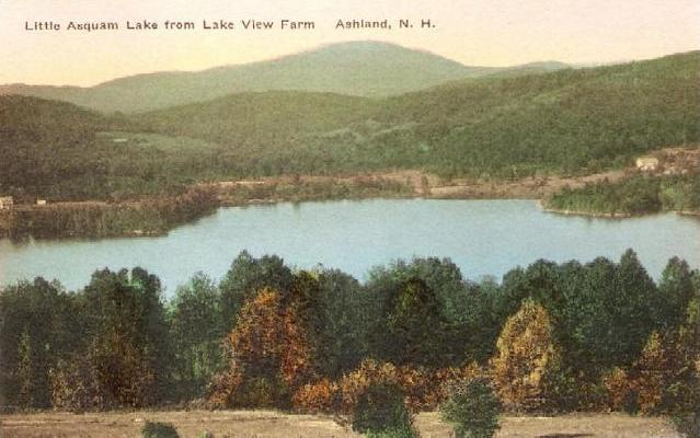 Little Asquam (Squam) Lake from Lake View Farm, Ashland, New Hampshire